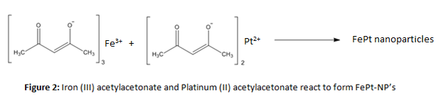 Iron (III) acetylacetonate and Platinum (II) acetylacetonate react to form FePt-NP's